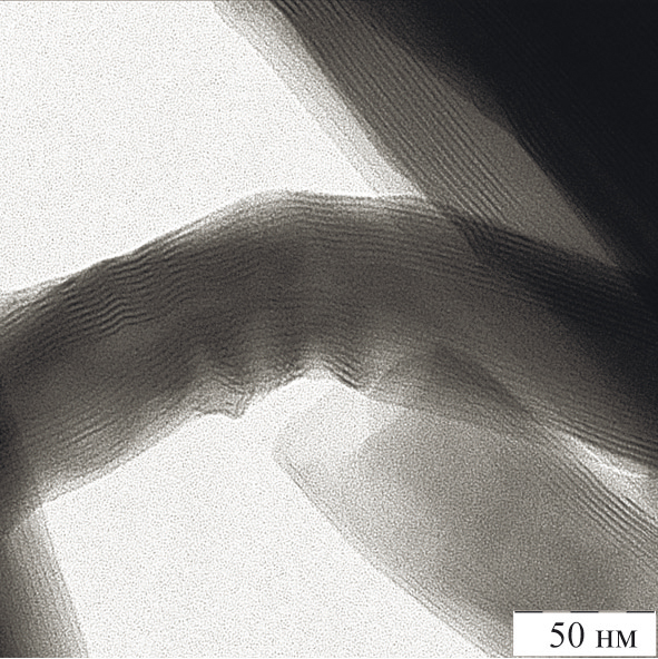 Nanotubes based on vanadium pentoxide - a typical example of a hybrid nanomaterial. In their structure of vanadium-oxygen layers alternate structural directing template - molecules of surfactant, chemically bonded to the inorganic layers and twisted together with them in the nanotube or nanosvitok. Such nanotubulenes formed when hydrothermal treatment of vanadium oxide (V) in the presence of surfactants (hexadecylamine, etc.).